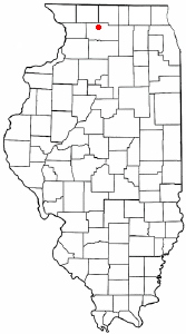 Category:Illinois city locator maps